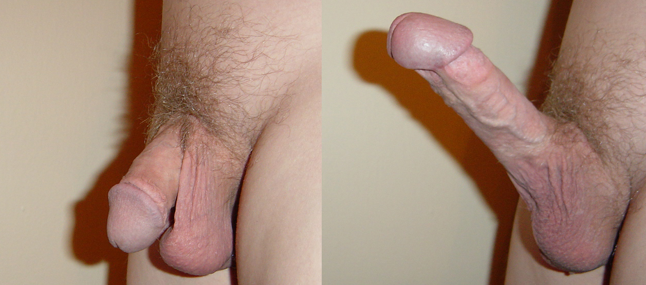 Example of a circumcised human penis in flaccid and erect states. However, it should be noted this example displays a Skin bridge.